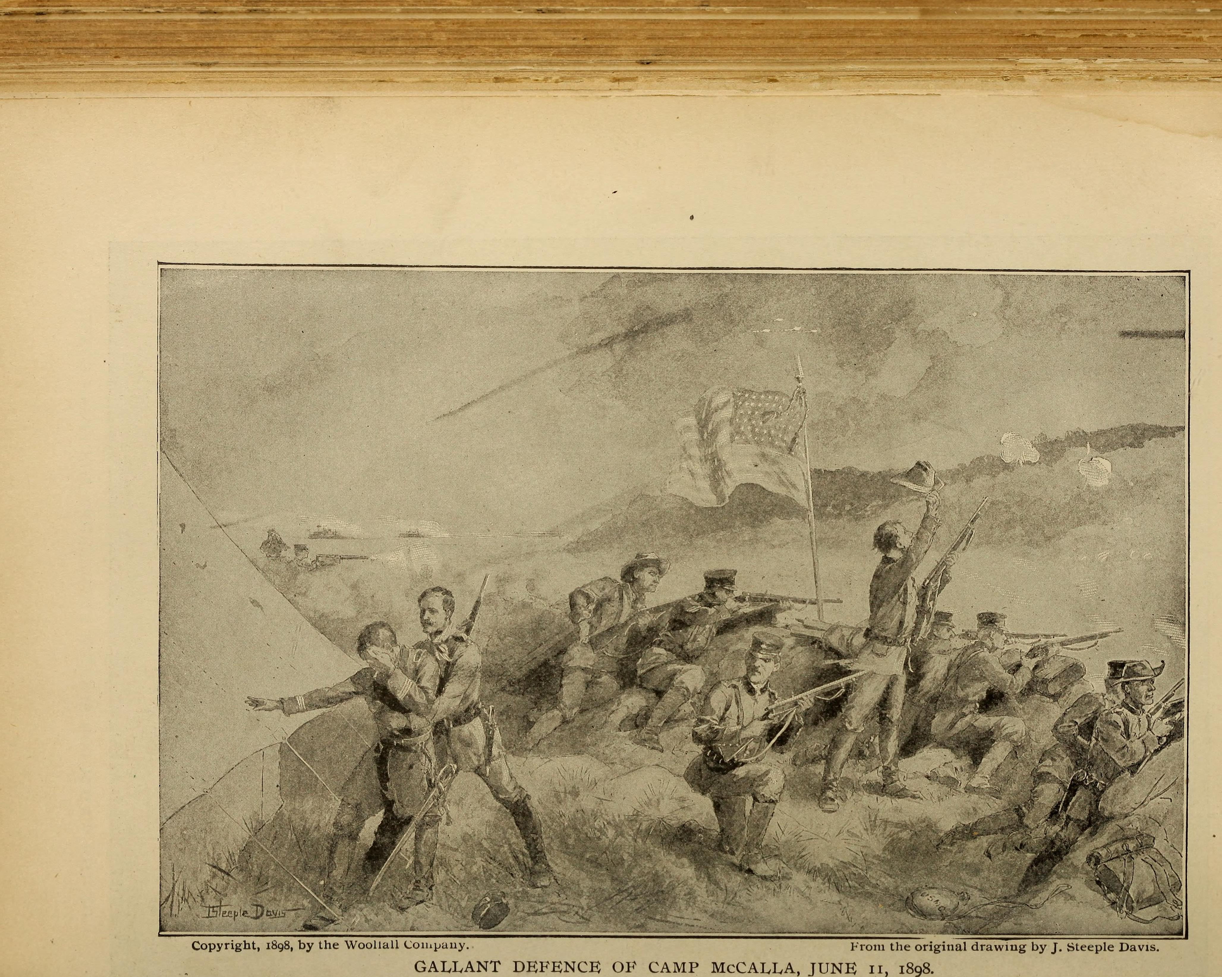 Title: Hero tales of the American soldier and sailor as told by the heroes themselves and their comrades; the unwritten history of American chivalry Year: 1899 (1890s) Authors: Buel, James W. (James William), 1849-1920 Subjects: Spanish-American War, 1898 Publisher: Philadelphia, Pa., Century manufacturing company Text Appearing Before Image: ' Text Appearing After Image: MEETING OF GENERALS SHAFTER AND TORAL PREPARATORY TO THESPANISH SURRENDER AT SANTIAGO, JUNE 17, i8q8.